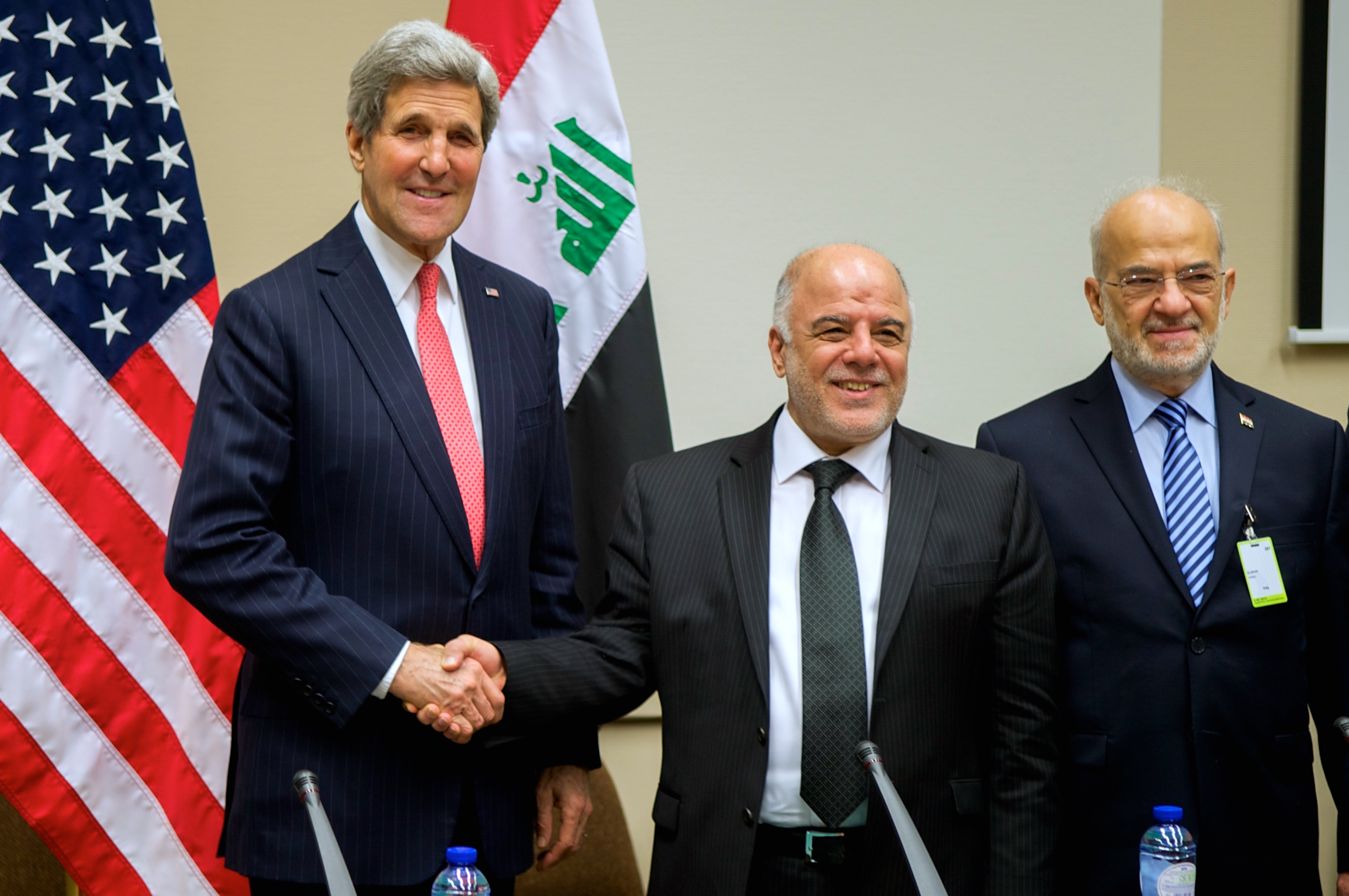 U.S. Secretary of State John Kerry shakes hands with Iraqi Prime Minister Haider al-Abadi before beginning a bilateral conversation that preceded a meeting of more than 60 anti-ISIL coalition parties held on December 3, 2014, at NATO Headquarters in Brussels, Belgium.